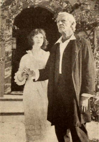 Still from the American film The Miracle Man (1919) with Betty Compson and Joseph J. Dowling, on page 57 of the October 1921 Photoplay.